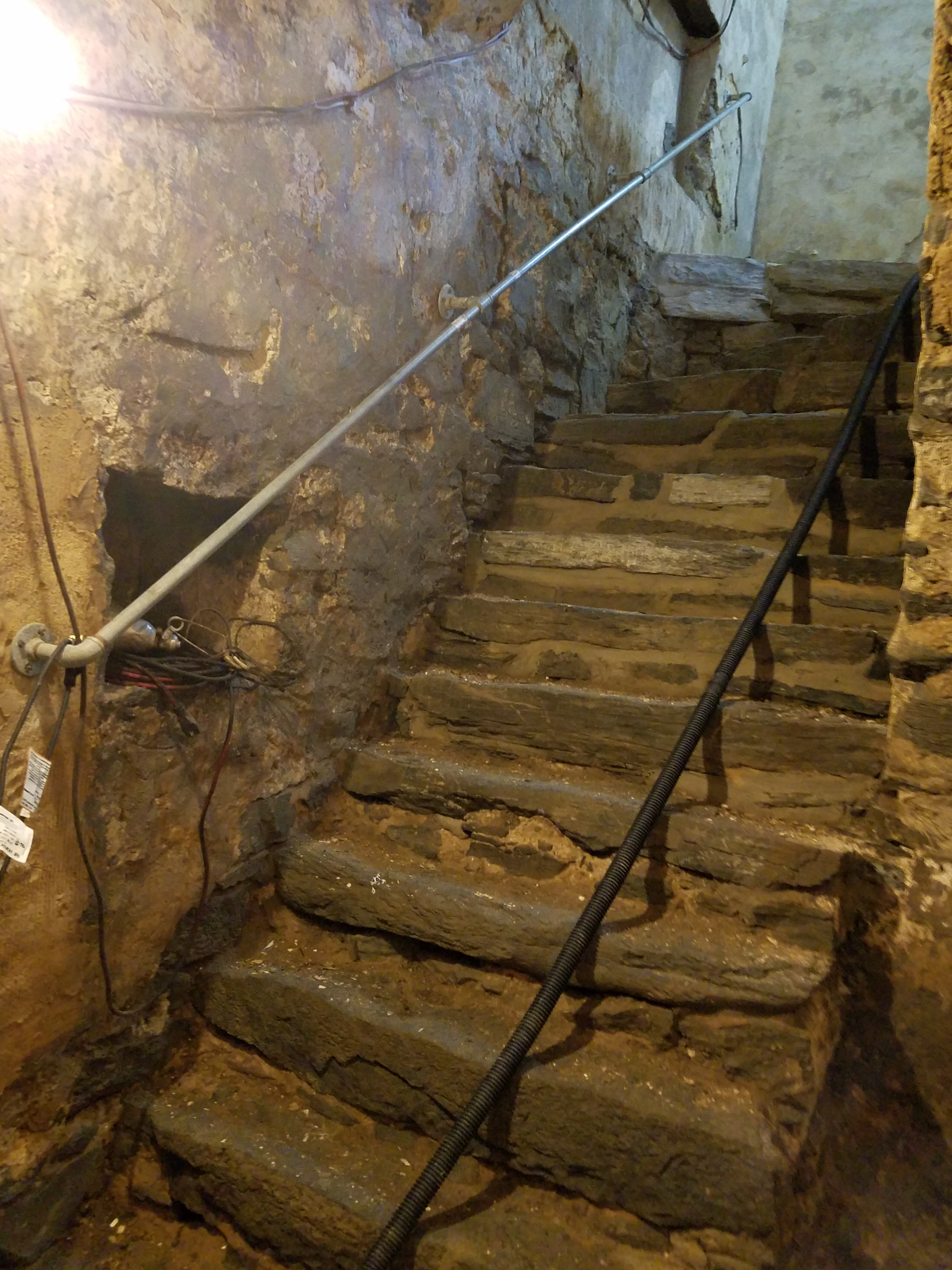 Light's Fort - Limestone Steps Leading to the Cellar.